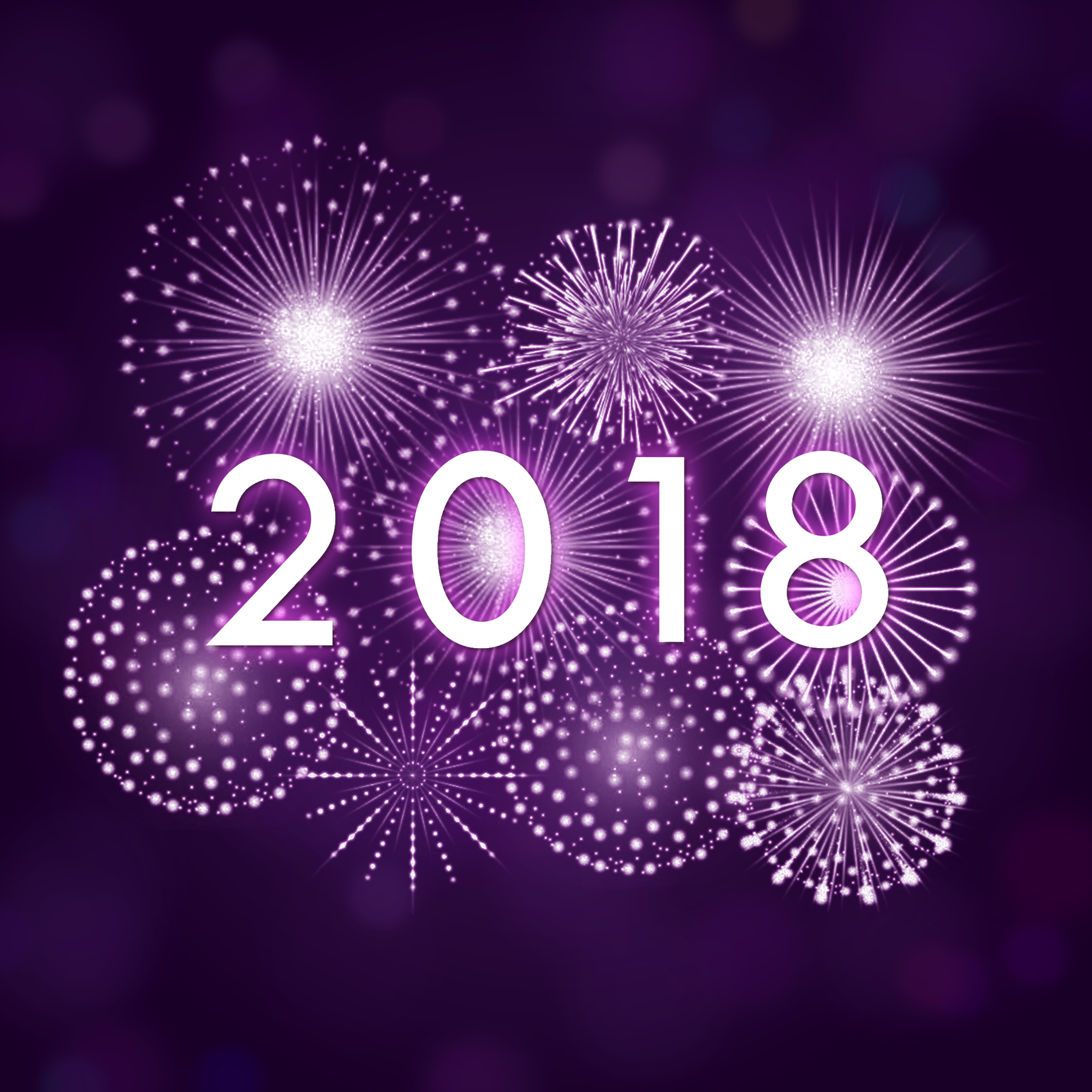 fireworks 2018 happy new year